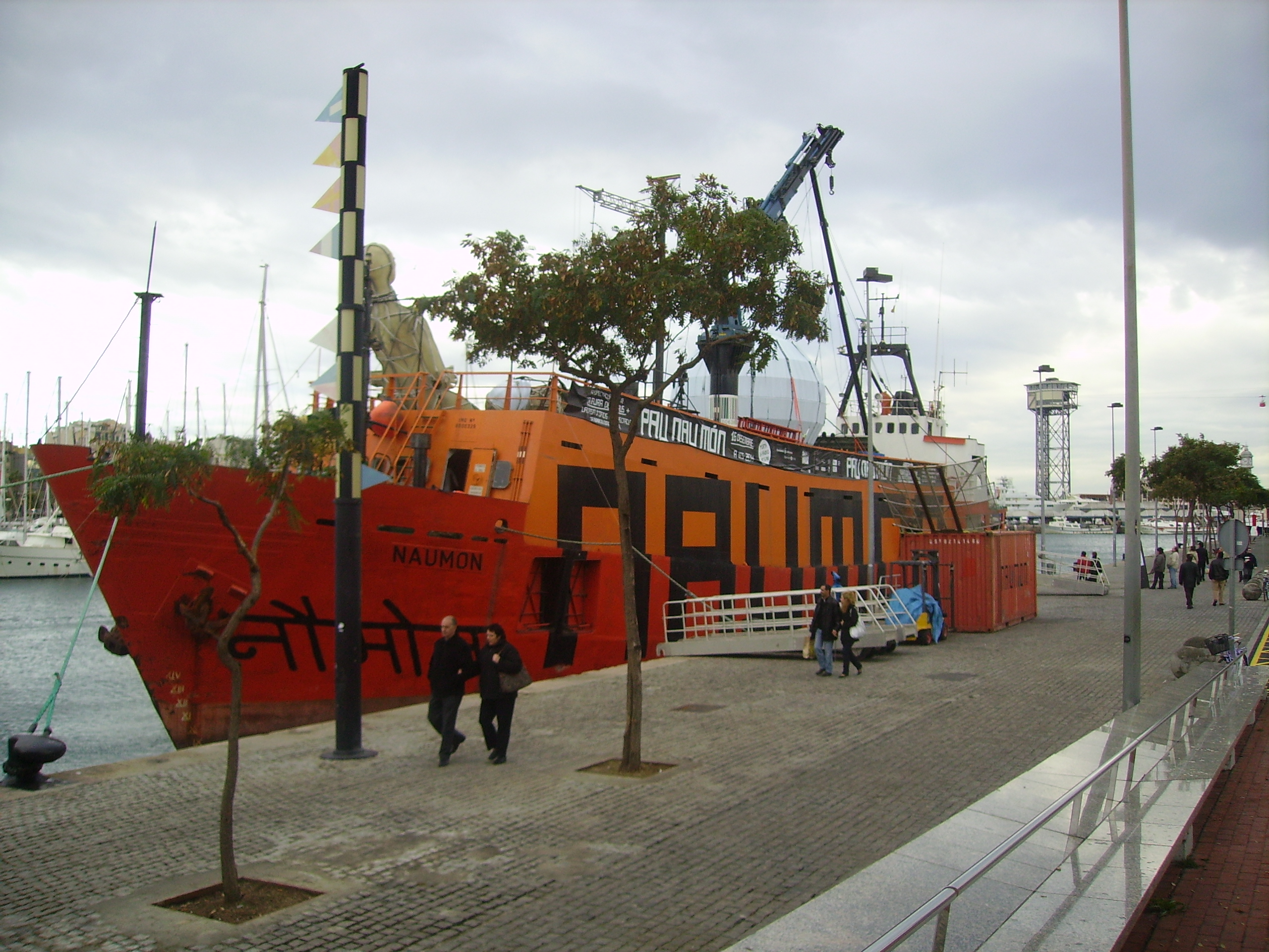 IMO-number: 6506329 MMSI-number: 224118520 Call sign: ECGG Length: 60 m Beam: 12 m